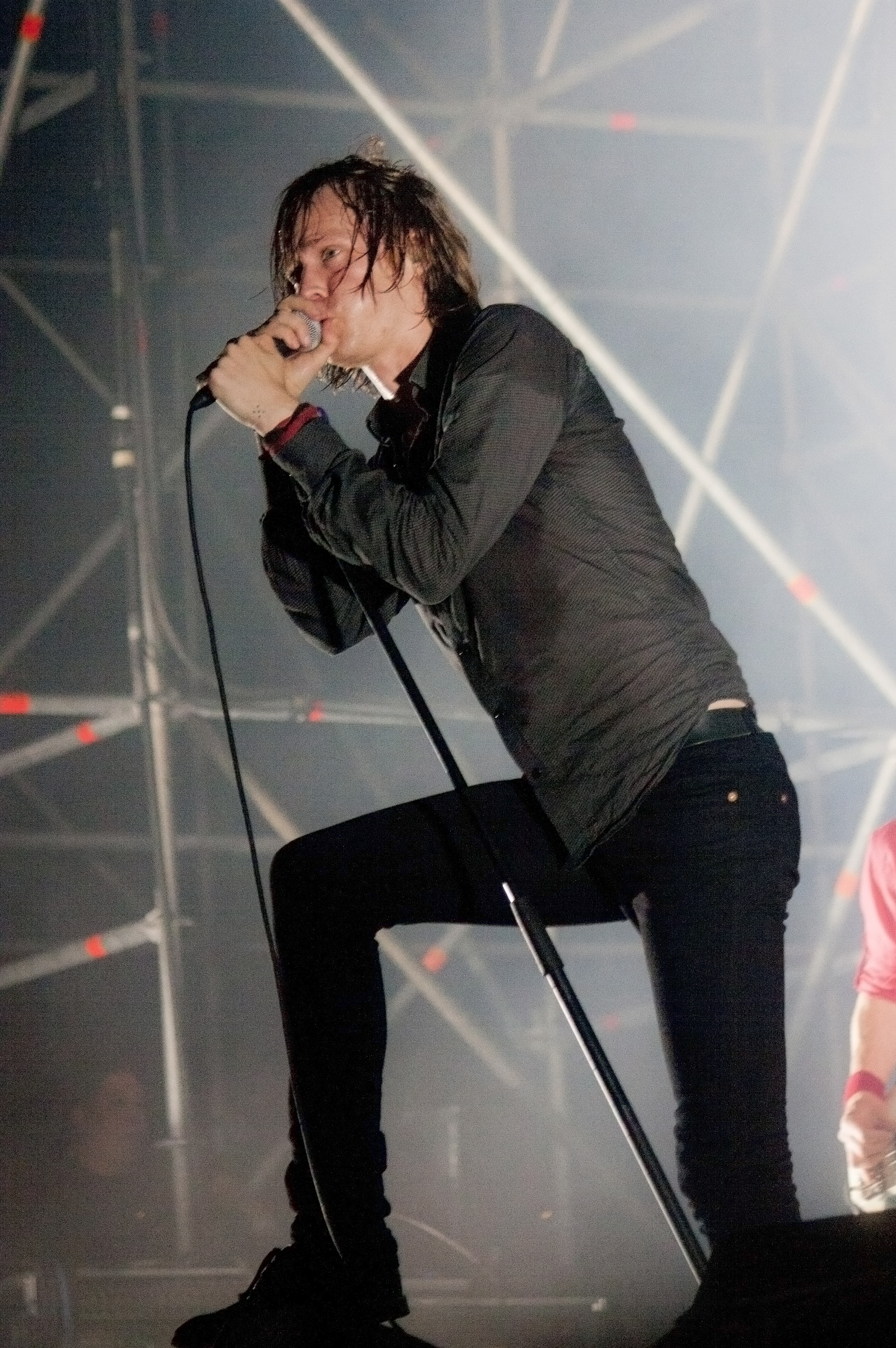 Refused